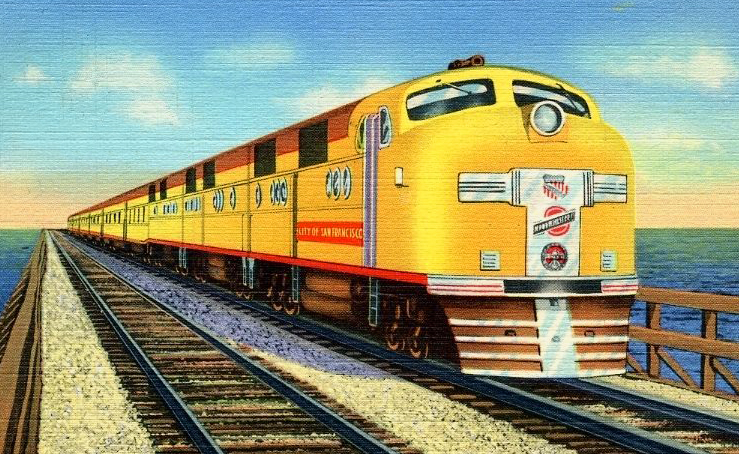 Streamliner "City of San Francisco" Crossing the Great Salt Lake, Utah PPC (8A-H1987) Caption: "The 17-car Streamliner, City of San Francisco, 39 3/4 hours between Chicago and San Francisco, carries de luxe coaches, sleeping cars, a club car, and an observation lounge car. Five round trips are made each month."